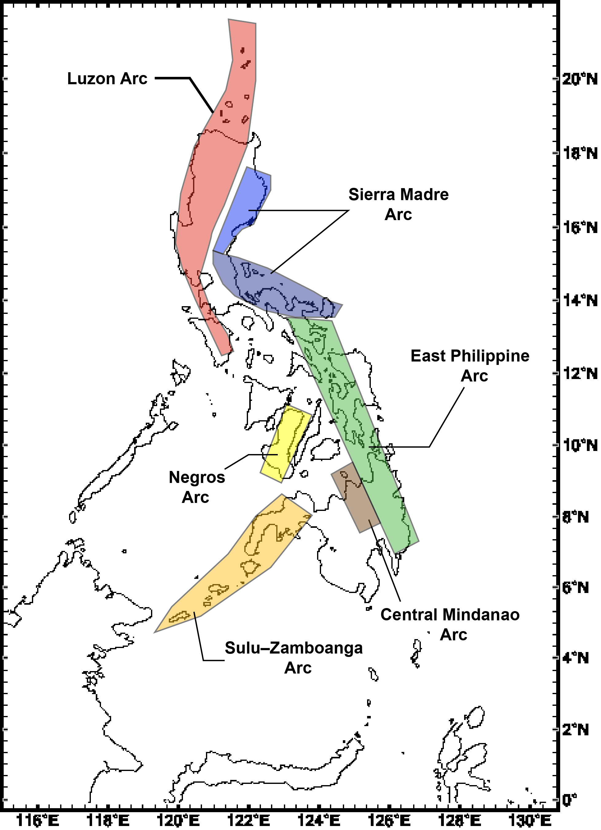 Major Philippine magmatic arcs. Modified from Yumul et al (2008)